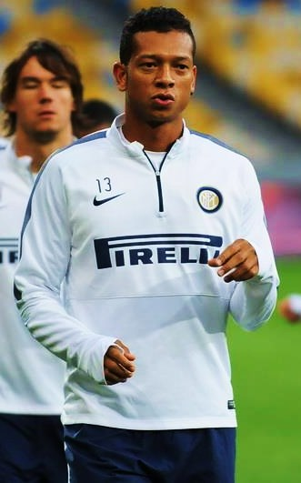 Freddy Guarín